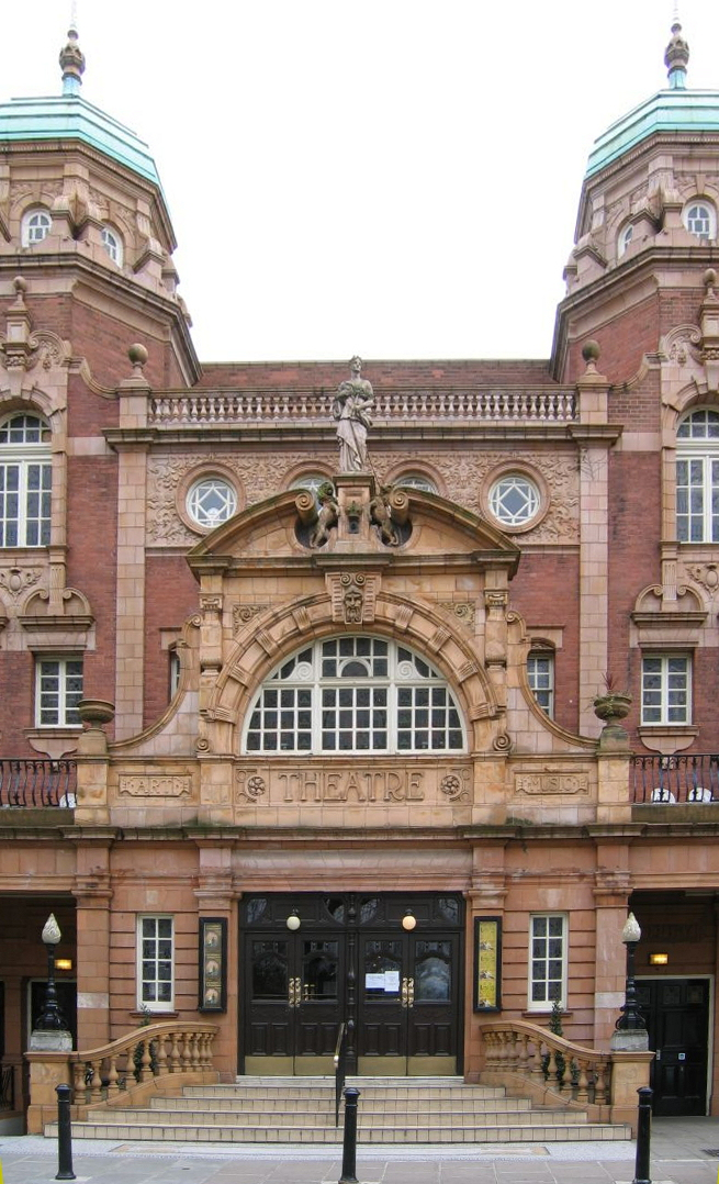 Reworking of Image:Richmond Theatre portrait.jpg by User:MaxHund. Corrected for tilt and parallax.